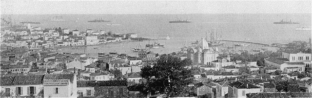 European cruisers and other warships cruising in December 1905 before Mytilene, chief town of the island of Lesbos, then an Ottoman possession. The Europeans were exerting pressure on the Turks to force them to accept their plan for an international commission that would supervise the financial and fiscal affairs of the province of Macedonia. From left to right: the Szigetvár (Austro-Hungarian); Lancaster (British); Sankt Georg (Austro-Hungarian); Dard (French); Charlemagne (French); Garibaldi (Italian); Kubanets (Russian).